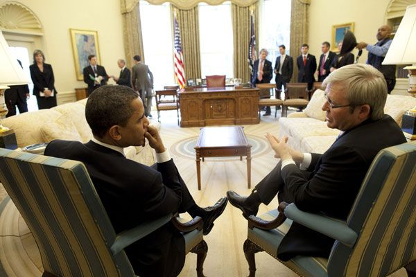 President Barack Obama in an Oval office meeting with Australian Prime Minister Kevin Rudd on March 24, 2009.